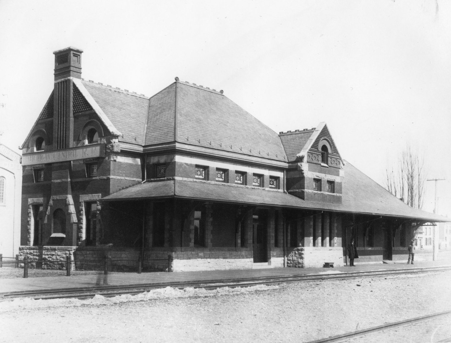 A glossy black and white print showing a front and side view of the Michigan Central Railway Station in London, Ontario, Canada. Two men are standing on the platform. The Michigan Central Railway Station, built 1886-7, was situated on the south-east corner of Clarence and Bathurst Streets. It was designed by F. H. Spier, a famous Detroit architect (source: "Canadian Rail Passenger Review Vol 1" p.65). The first Michigan Central passenger train pulled into the station on September 12, 1887 (London Free Press, Monday, September 12, 1887 p.3 c.4) and the last train pulled out on June 30, 1915. The station was demolished in 1937. The inscription, not seen on the digital copy, was added to the original photograph in 1939: "The Michigan Central Railway station, erected 1886-7. About 1890."